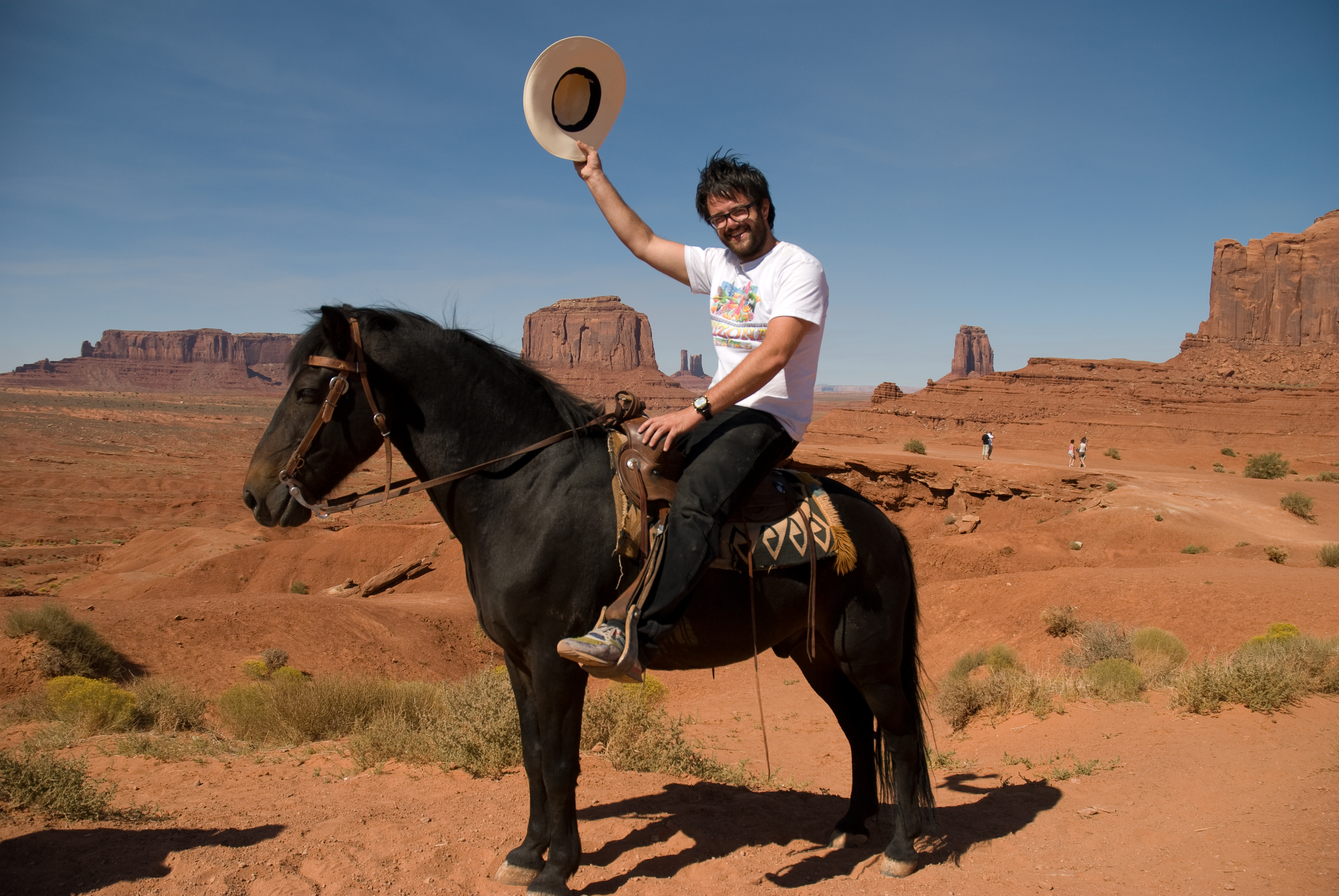 Artist Sandy Smith during 'Road Trip USA 08' project. Photograph taken by Alex Gross at Monument Valley, Utah.